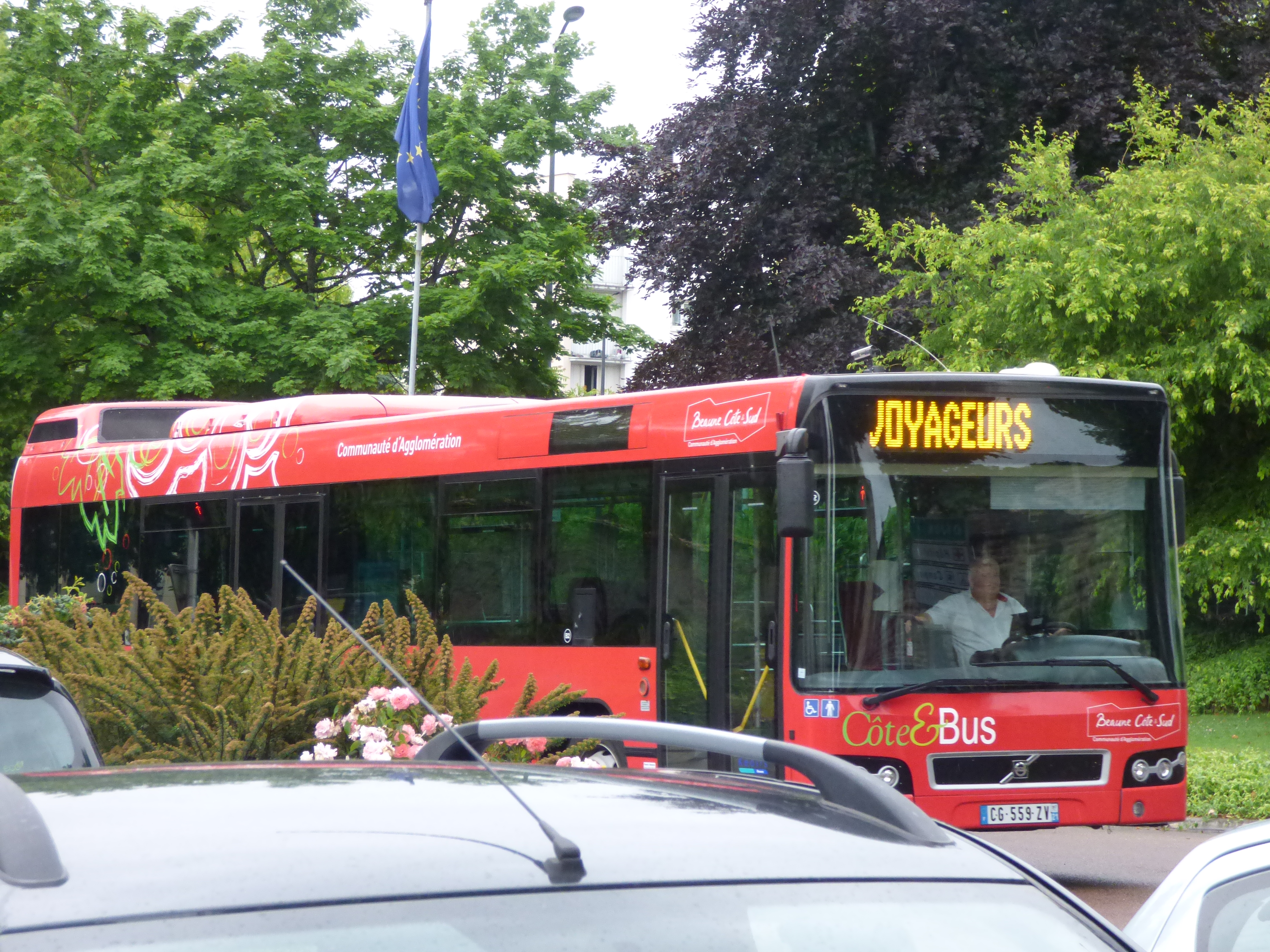 Bus in Beaune. Seen during our walking tour of Beaune town centre. Was raining a bit. Avenue Charles de Gaulle - near a roundabout with an EU flag. Côte E Bus Communauté d'Agglomération